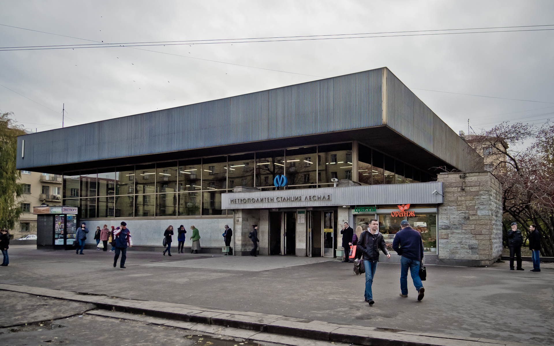 Lesnaya station of Saint Petersburg Subway, pavilion